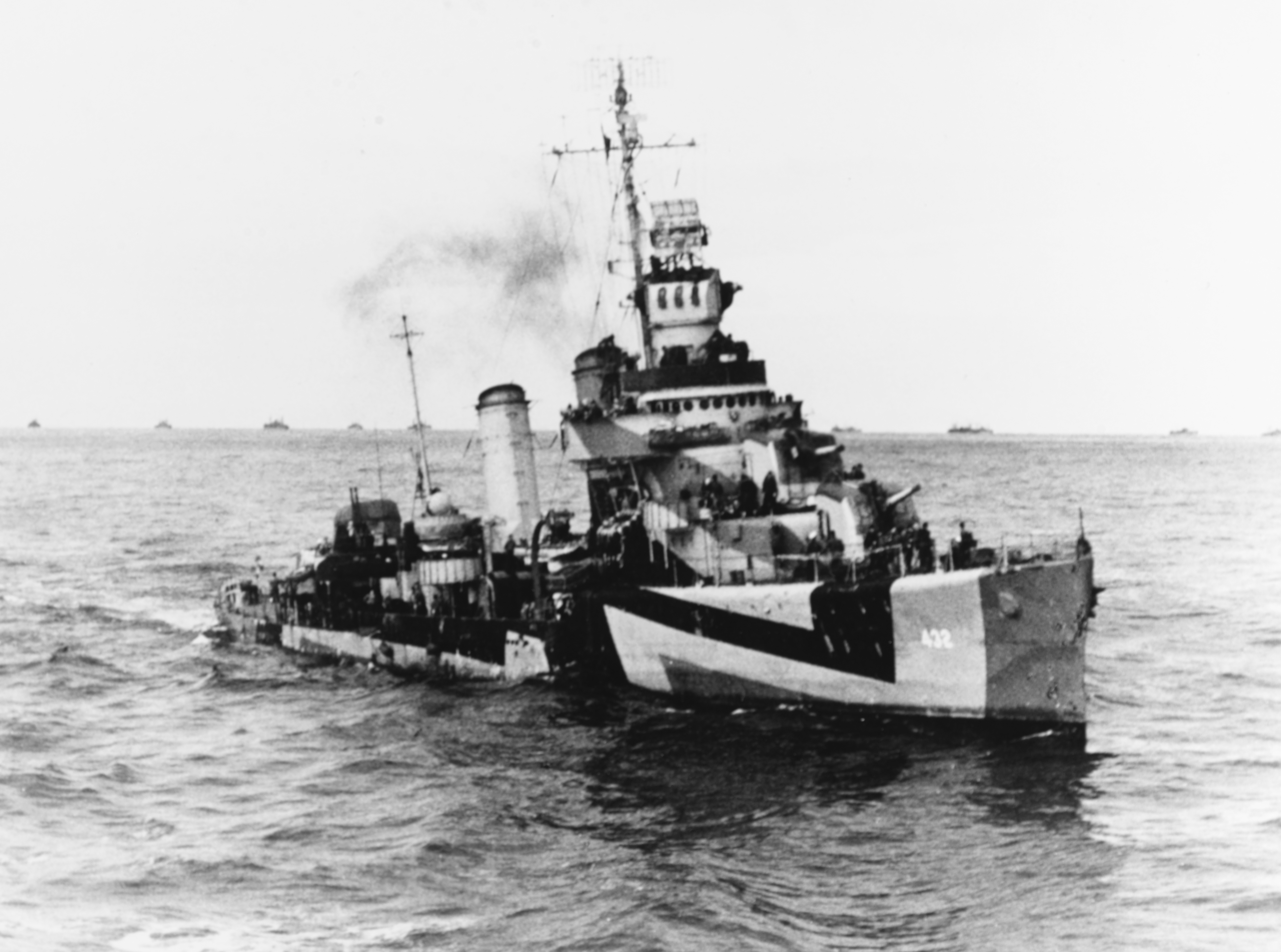 The U.S. Navy destroyer USS Kearny (DD-432) approaching Gibraltar from the Atlantic with a 100 ship convoy, circa 1944. The ship is painted in Camouflage Measure 31, Design 3D.